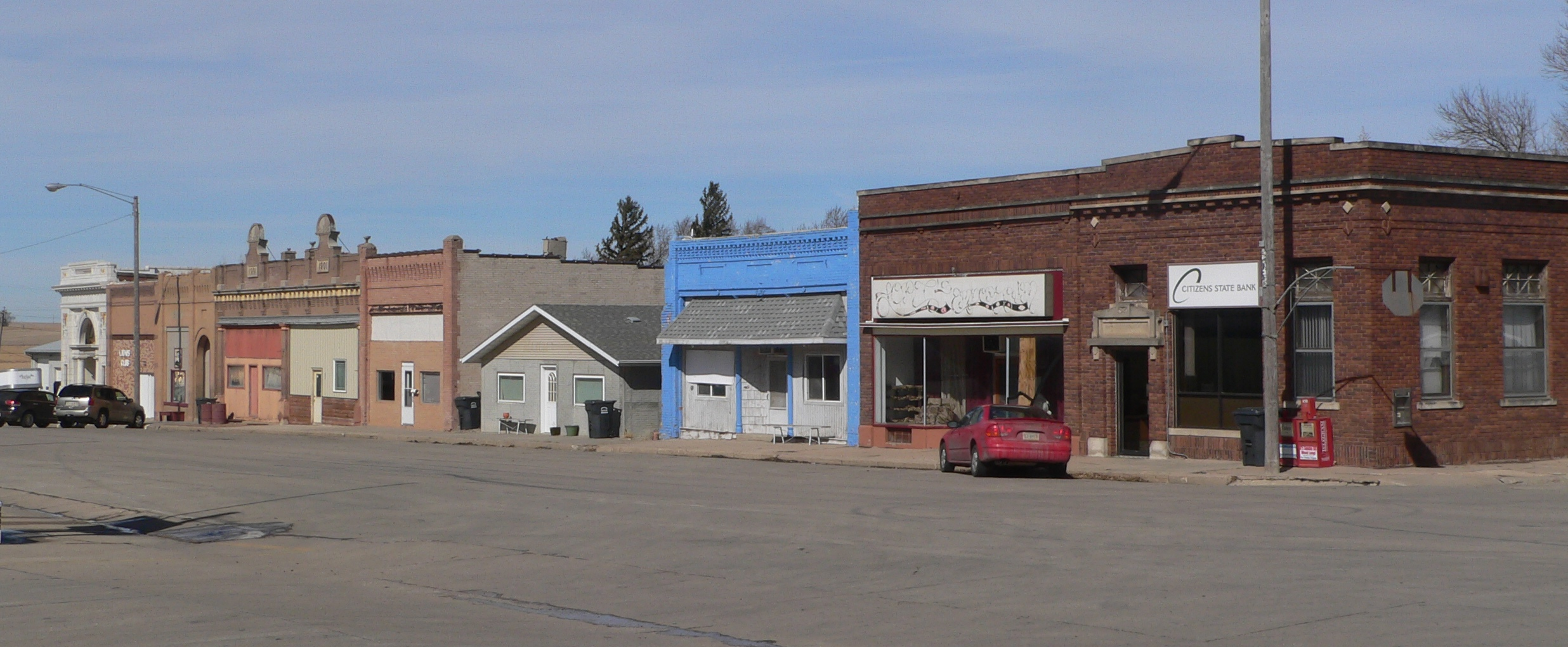 Downtown Creston, Nebraska: Pine Street; camera is facing northwest.